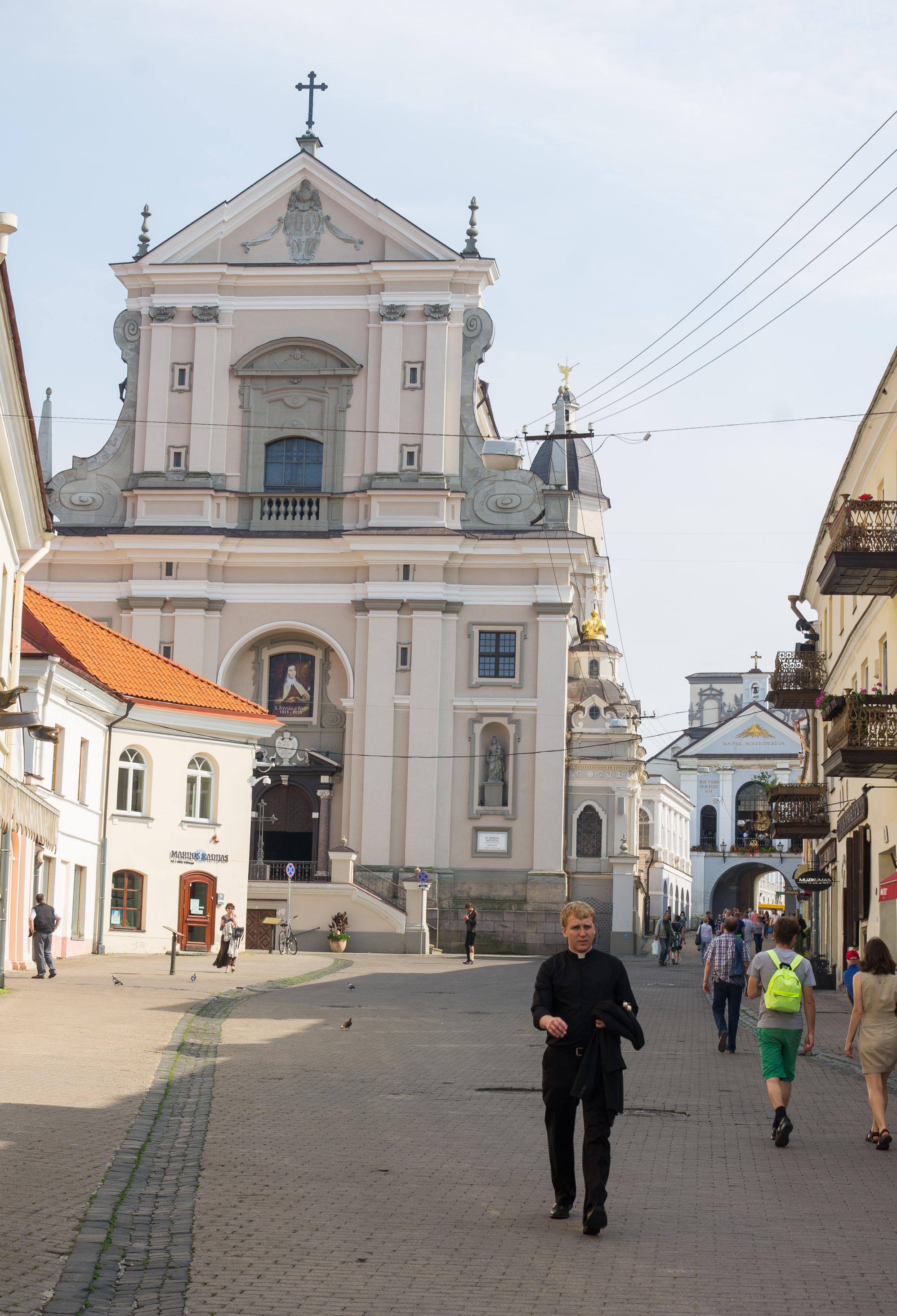 Church of St. Teresa in Vilnius, Lithuania.